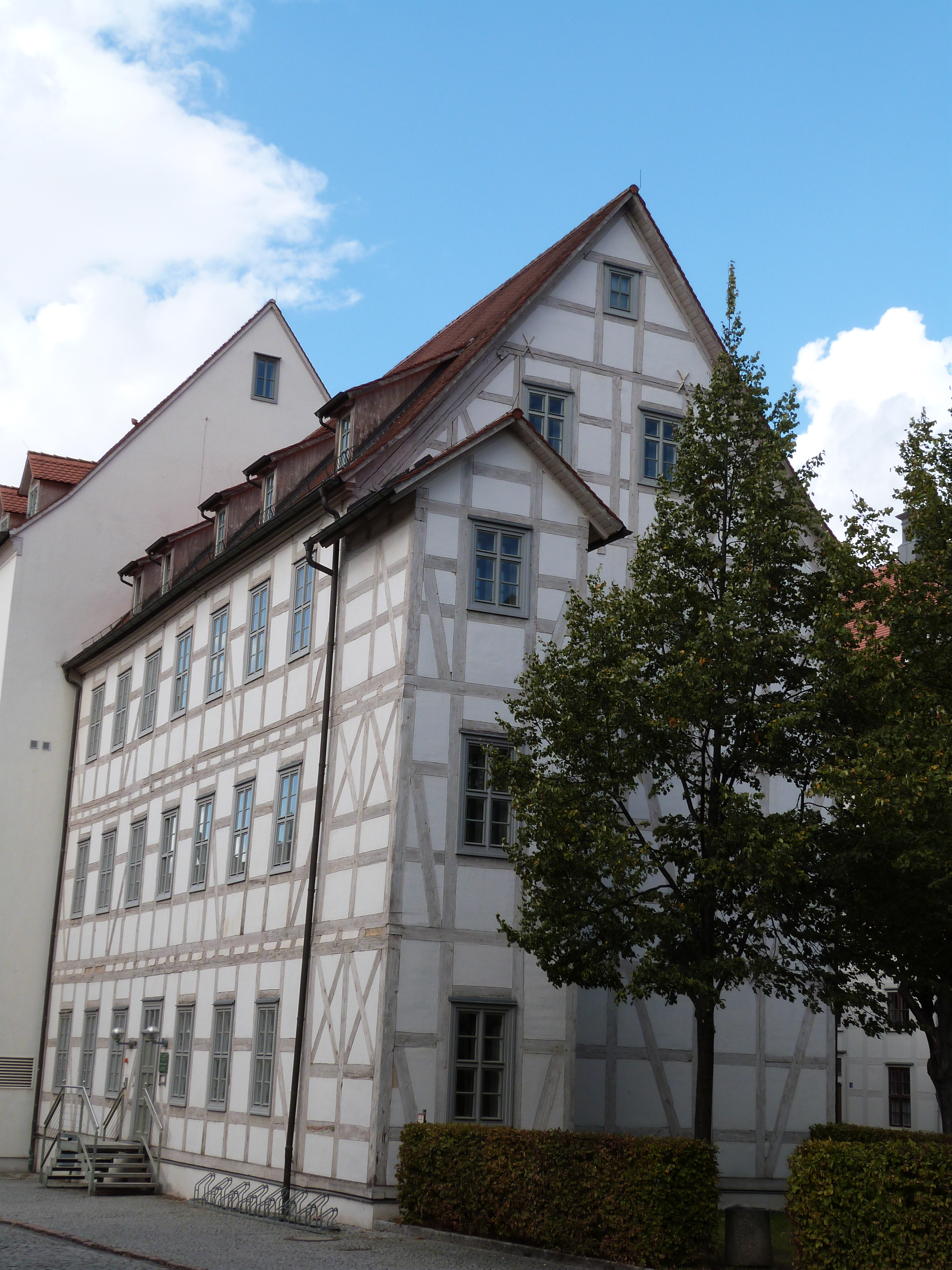 House No. 25, former Old orphanage for girls, Francke foundations in Halle (Saale), today university building